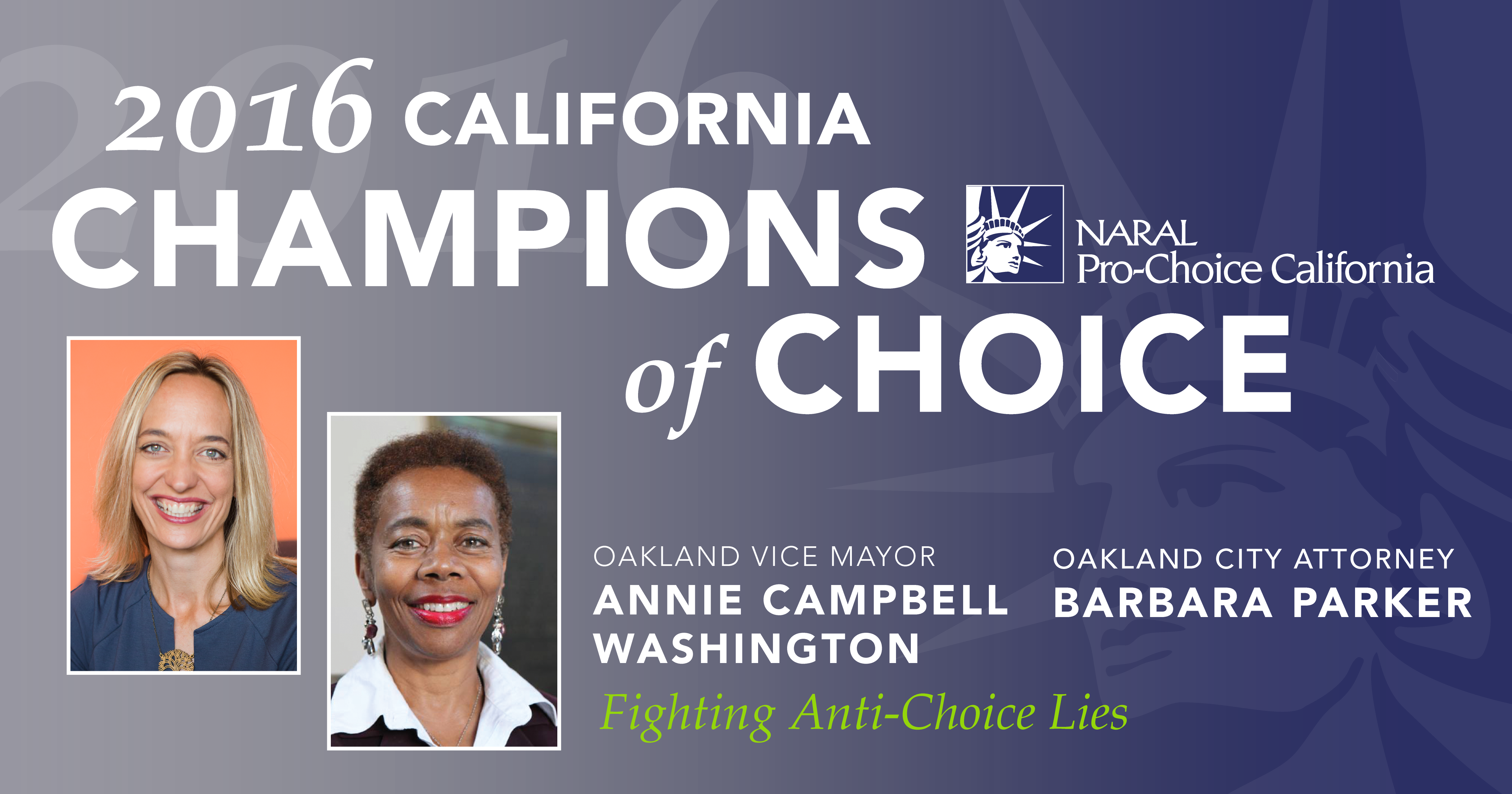 Barbara Parker received the "2016 Champions of Choice" award from NARAL Pro-Choice California for her work on an Oakland ordinance that prevents anti-choice activists from misrepresenting themselves as medical professionals or objective health care counselors.